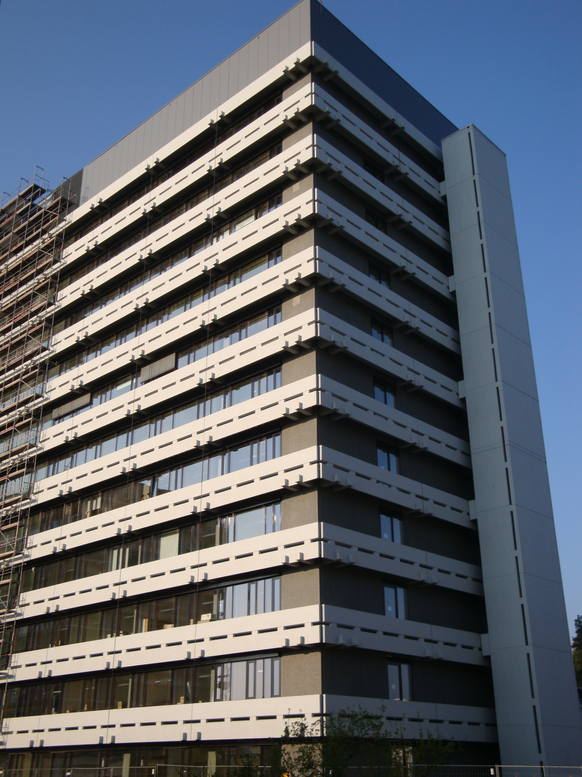 Chemistry Building Tuebingen